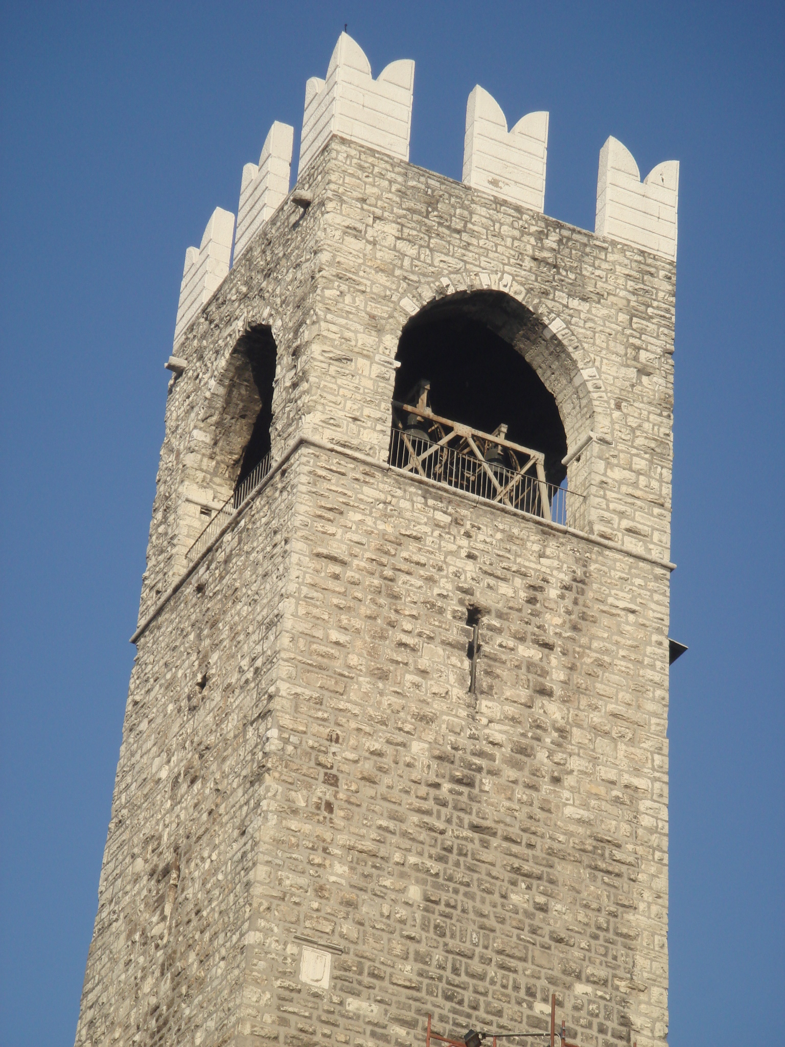 The Civic Tower (Torre del Popolo) near the Broletto, the ancient City Hall, in Brescia. Picture by Stefano Bolognini.